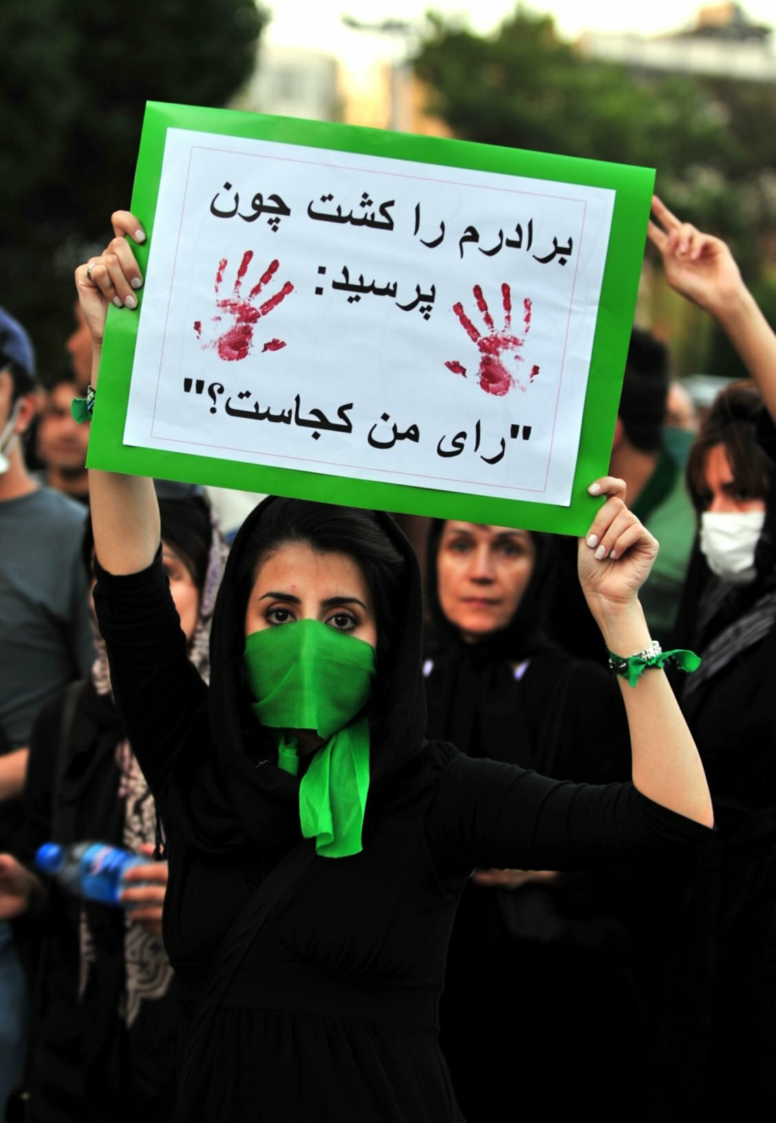 27e Khordad (June 17th) Haft-e Tir Square (and around streets) More photos here: Viva Iran!